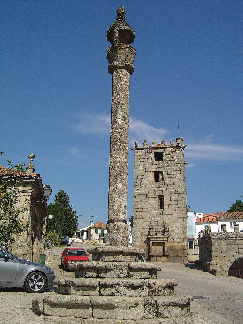 Pelourinho de Aguiar da Beira See where this picture was taken. [?]